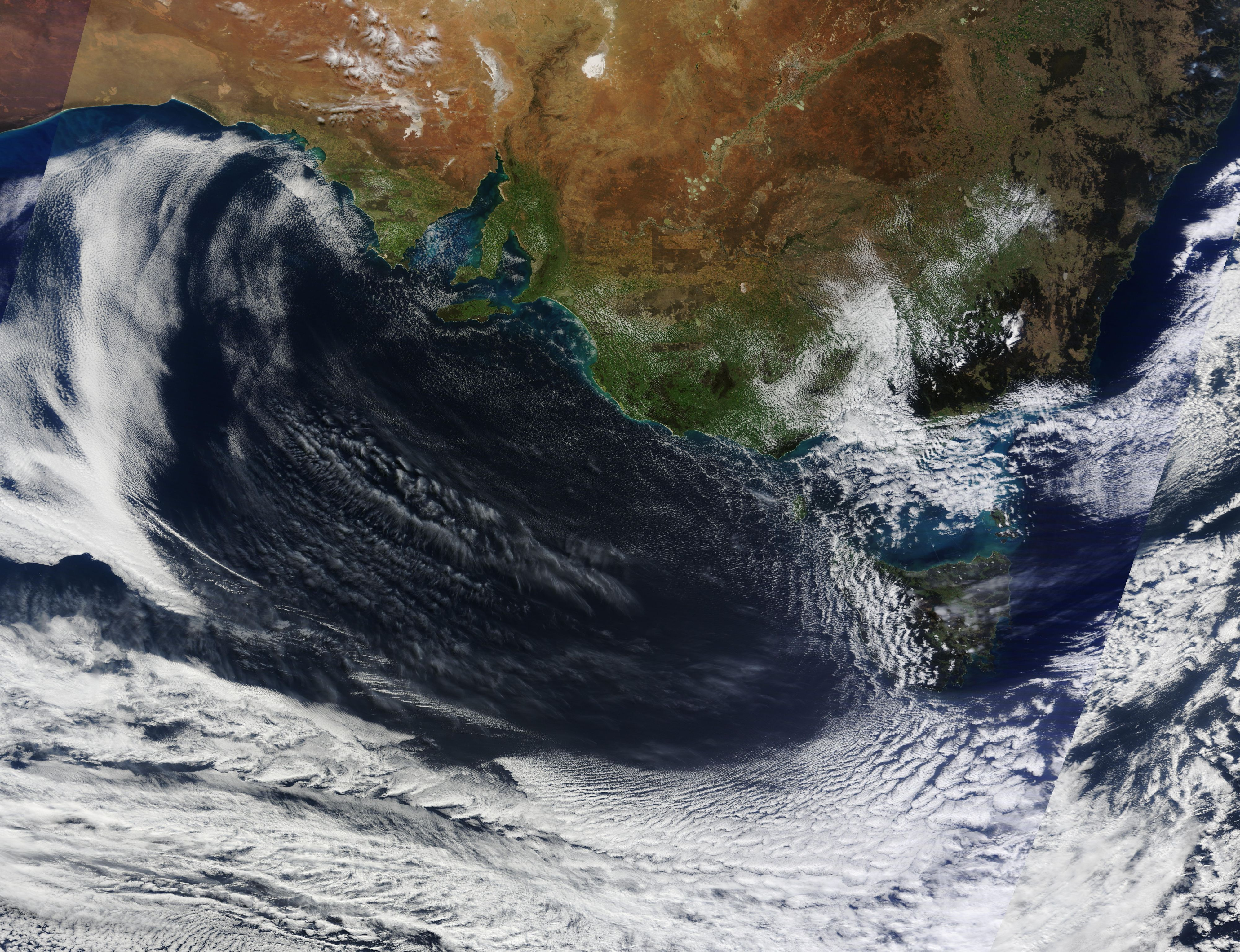 A Unusual High pressure Area in Southern Australia on August 9 2012.